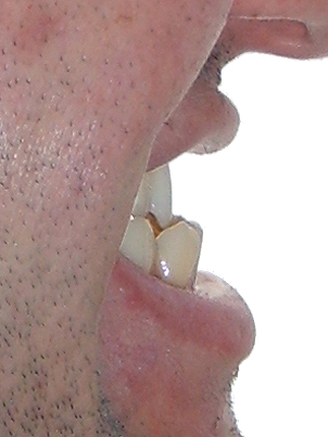 Maxillary hypoplasia.